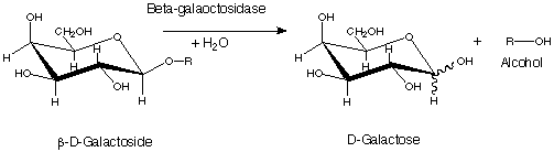 Reaction scheme/mechanism for beta-galactosidase This image has a misspelling above the reaction arrow.